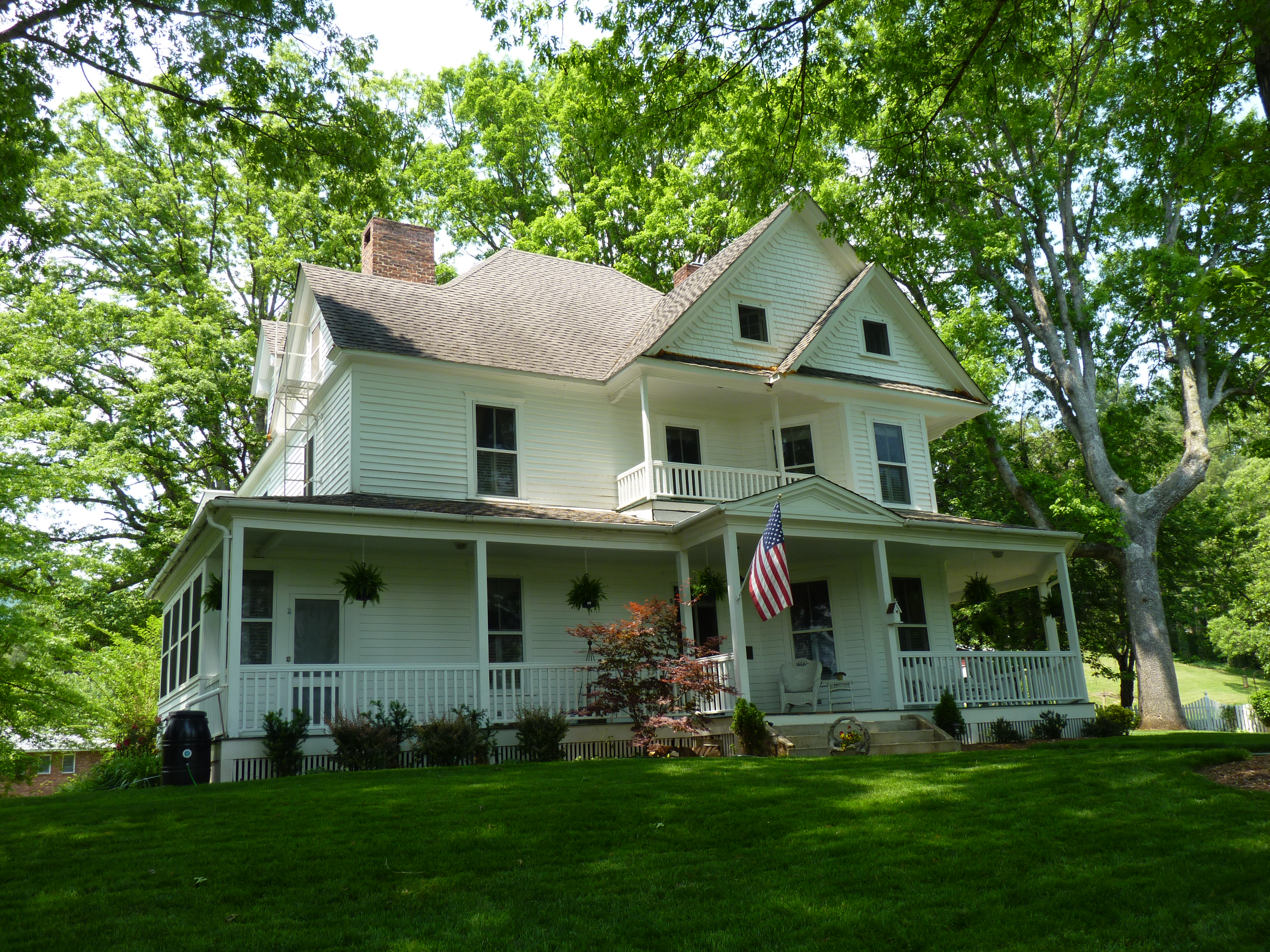 Former Clyde H. Ray Sr. House. Now Oak Hill Bed and Breakfast on Love Lane, and re-addressed.